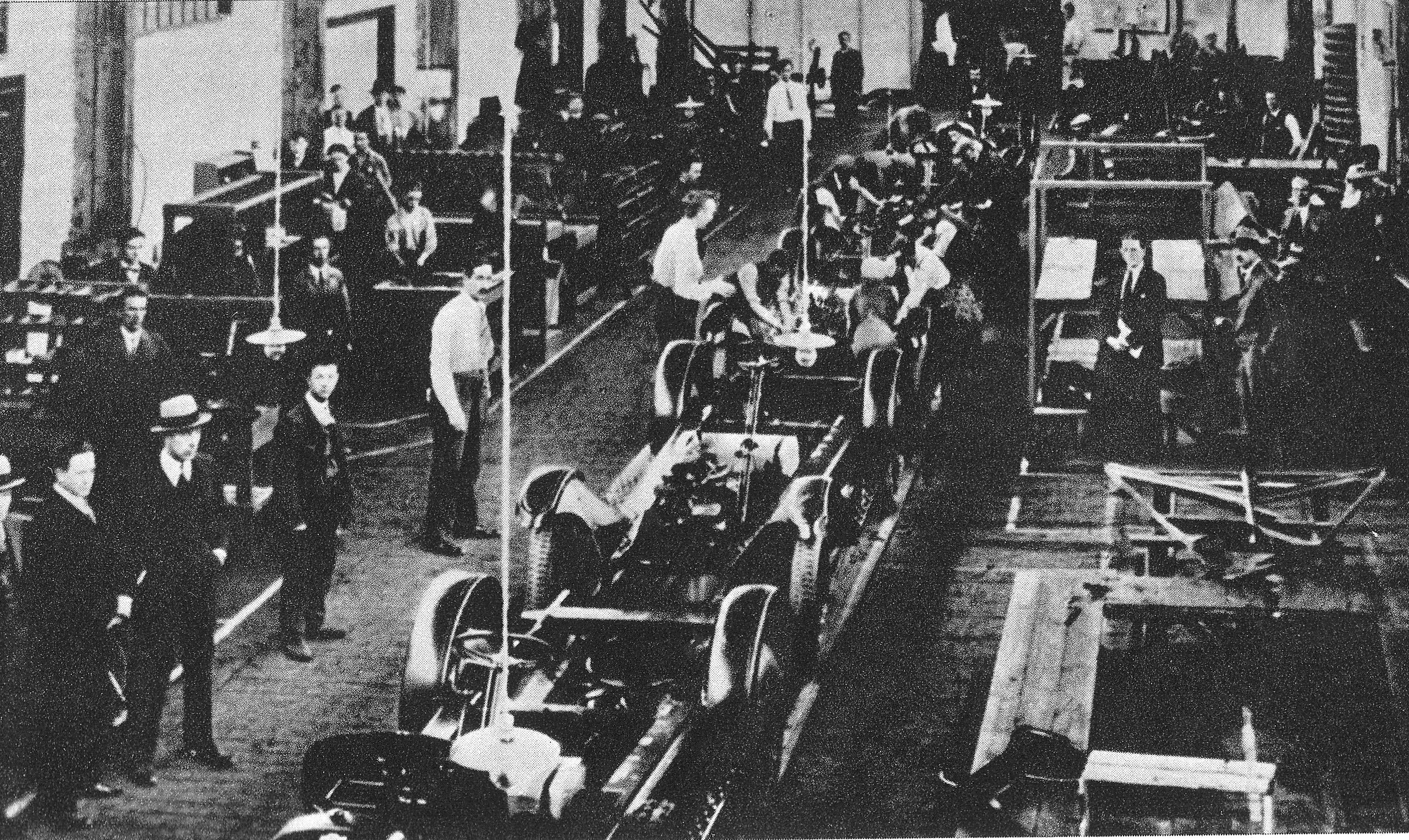 Production floor at the Lilpop, Rau & Loewenstein factory in Warsaw. Assembly of General Motors vehicles